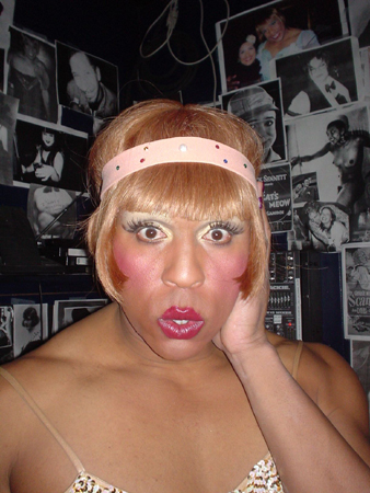 American genderqueer performing artist Vaginal Davis as "Bricktop" at the Parlour Club on Santa Monica Blvd. in Los Angeles. (See comment)